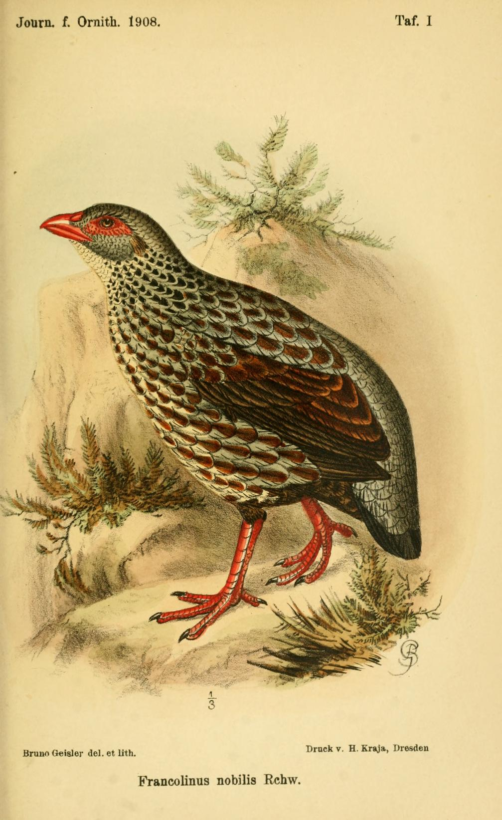 Handsome Francolin, Pternistis nobilis